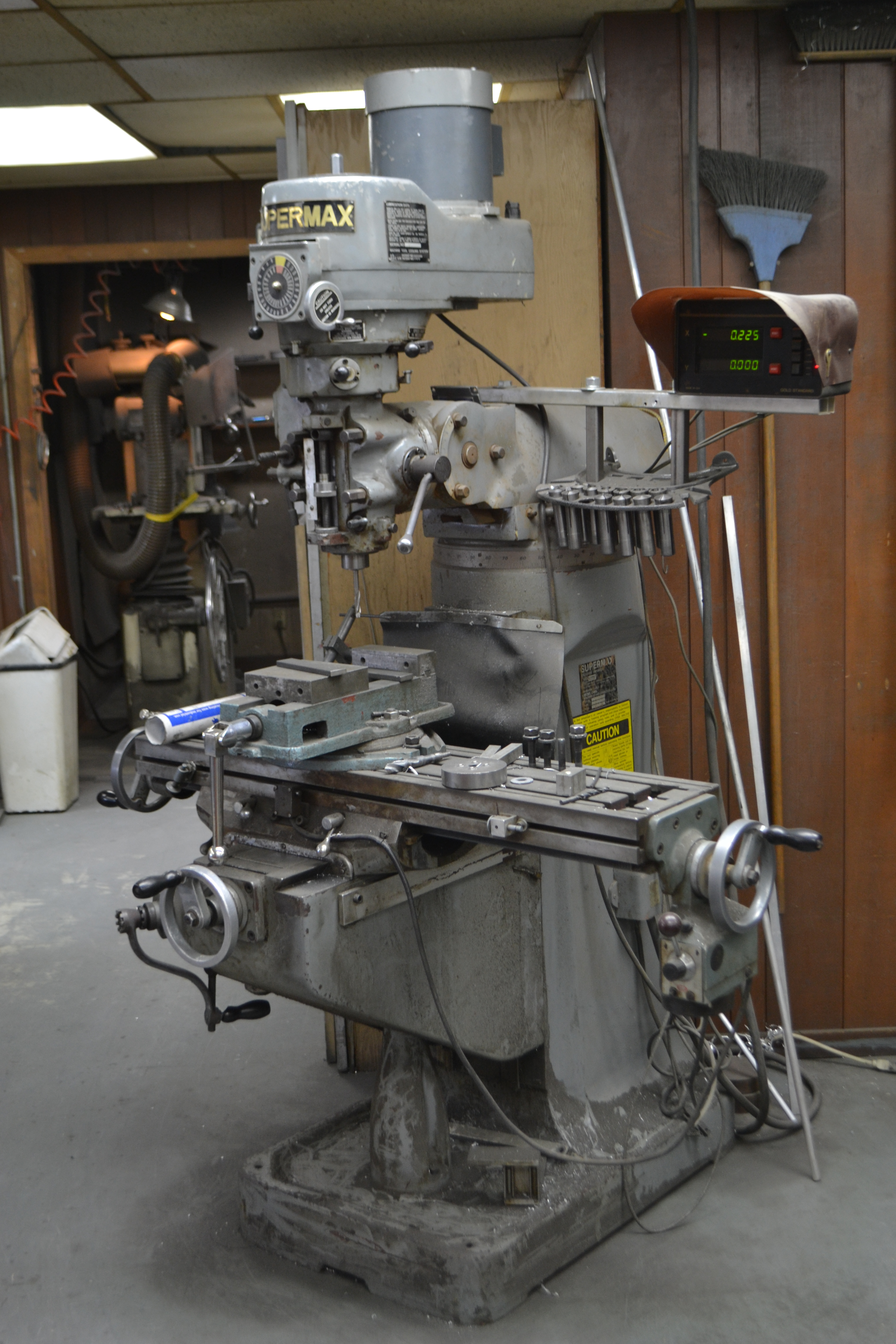 Supermax Milling Machine